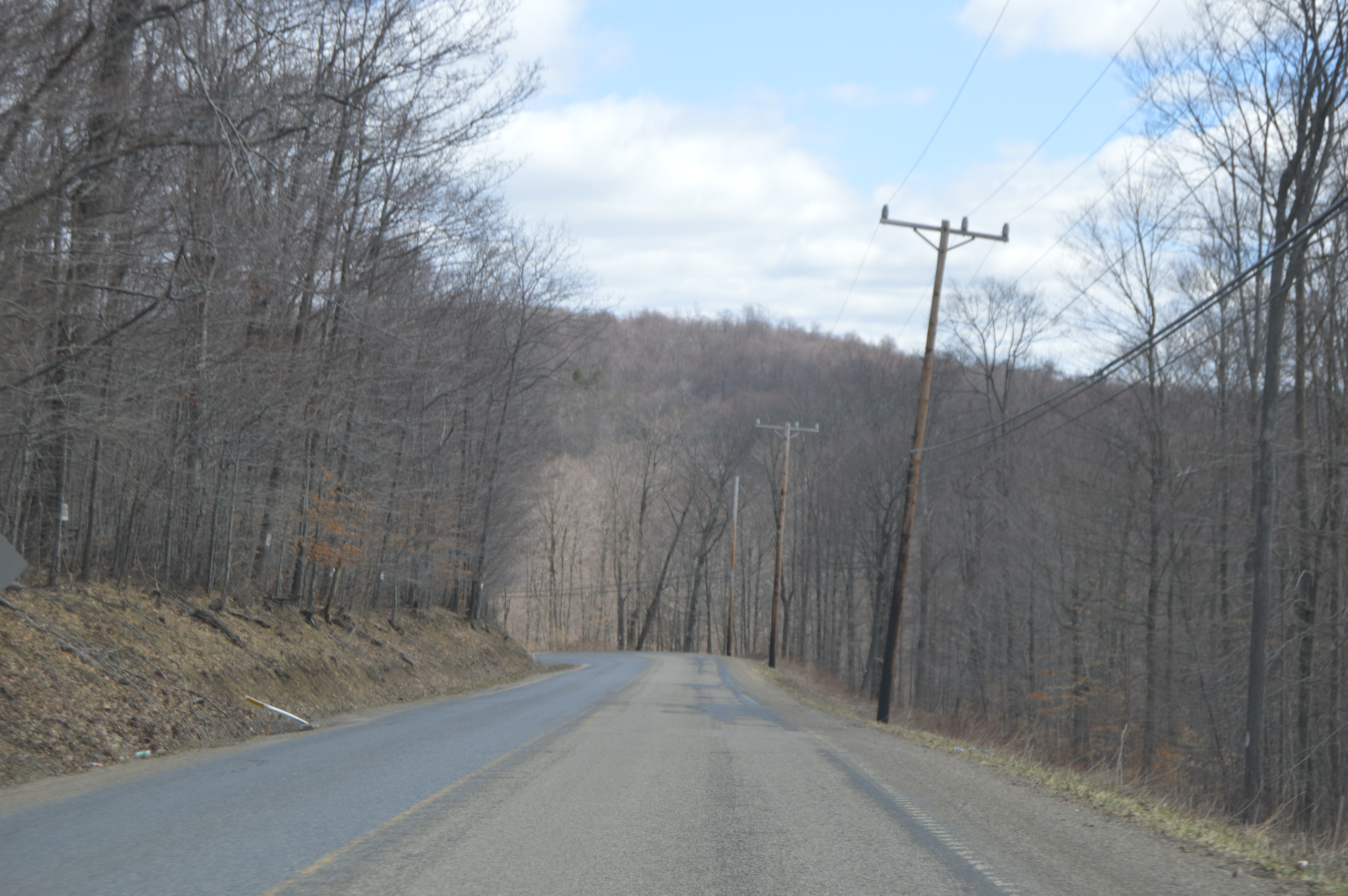 Looking eastward along Pennsylvania Route 46, a state highway in rural southwestern Otto Township, McKean County, Pennsylvania, United States.